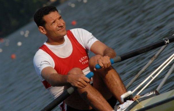 photo of Ali Ibrahim Rowing M1x